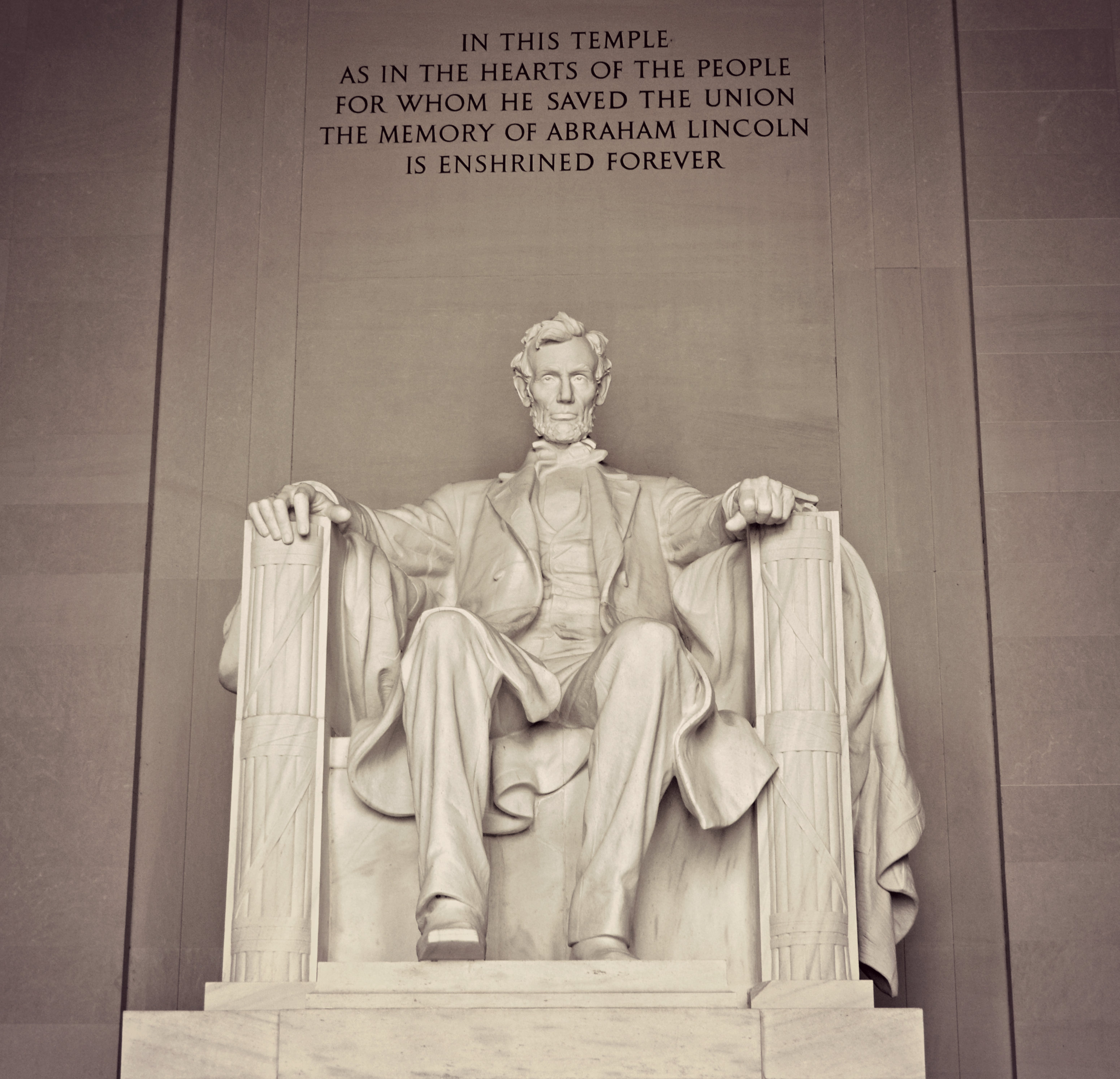 Statue of Abraham Lincoln at Lincoln Memorial, Washington DC